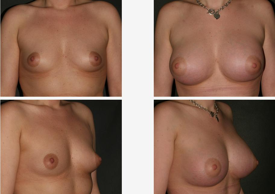 Plastic surgery; fat-graft breast augmentation; 4 plates (neclace)